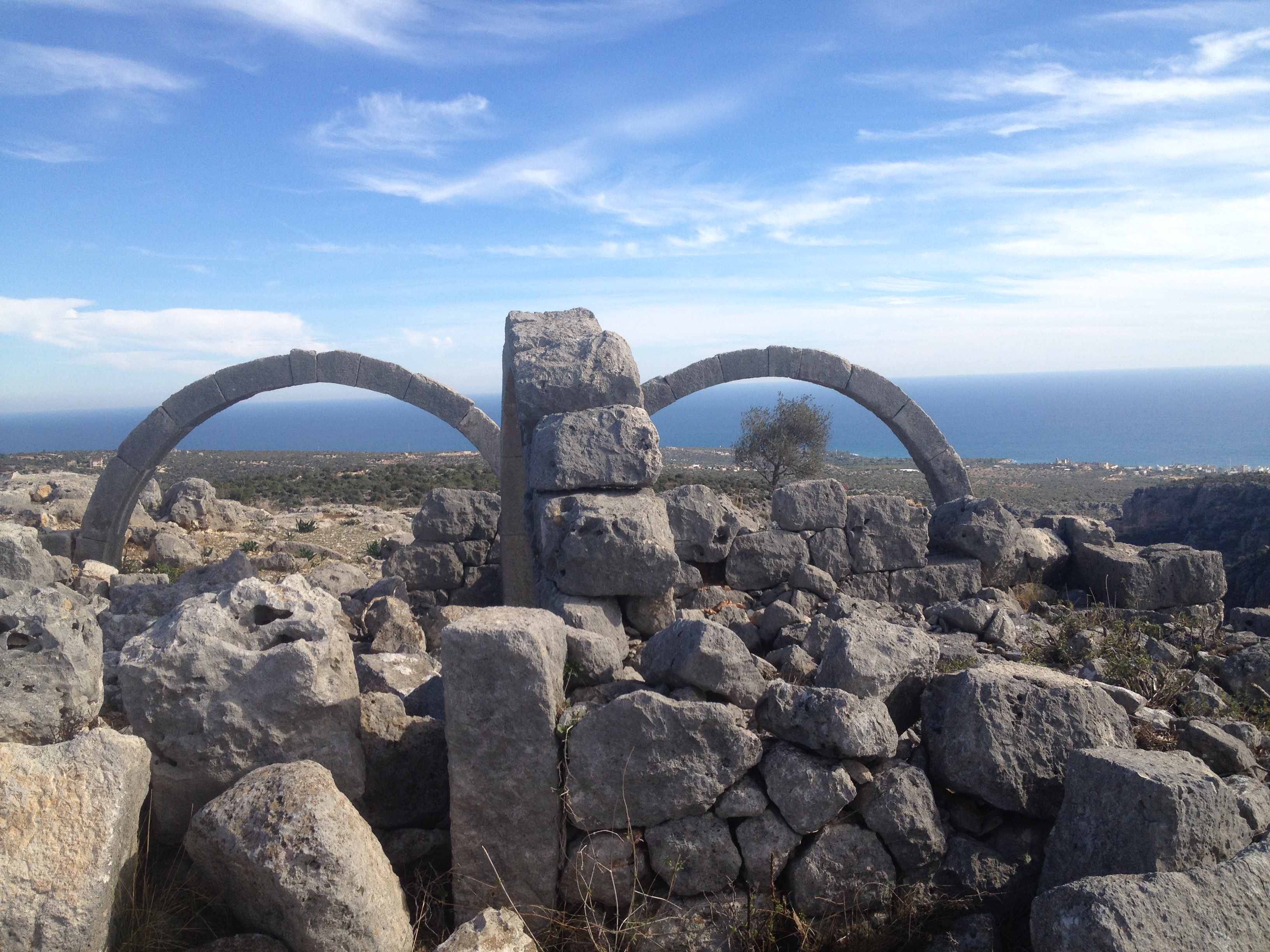 A view of Adamkayalar Archeological Site in Kızkalesi, Erdemli - Mersin, Turkey.